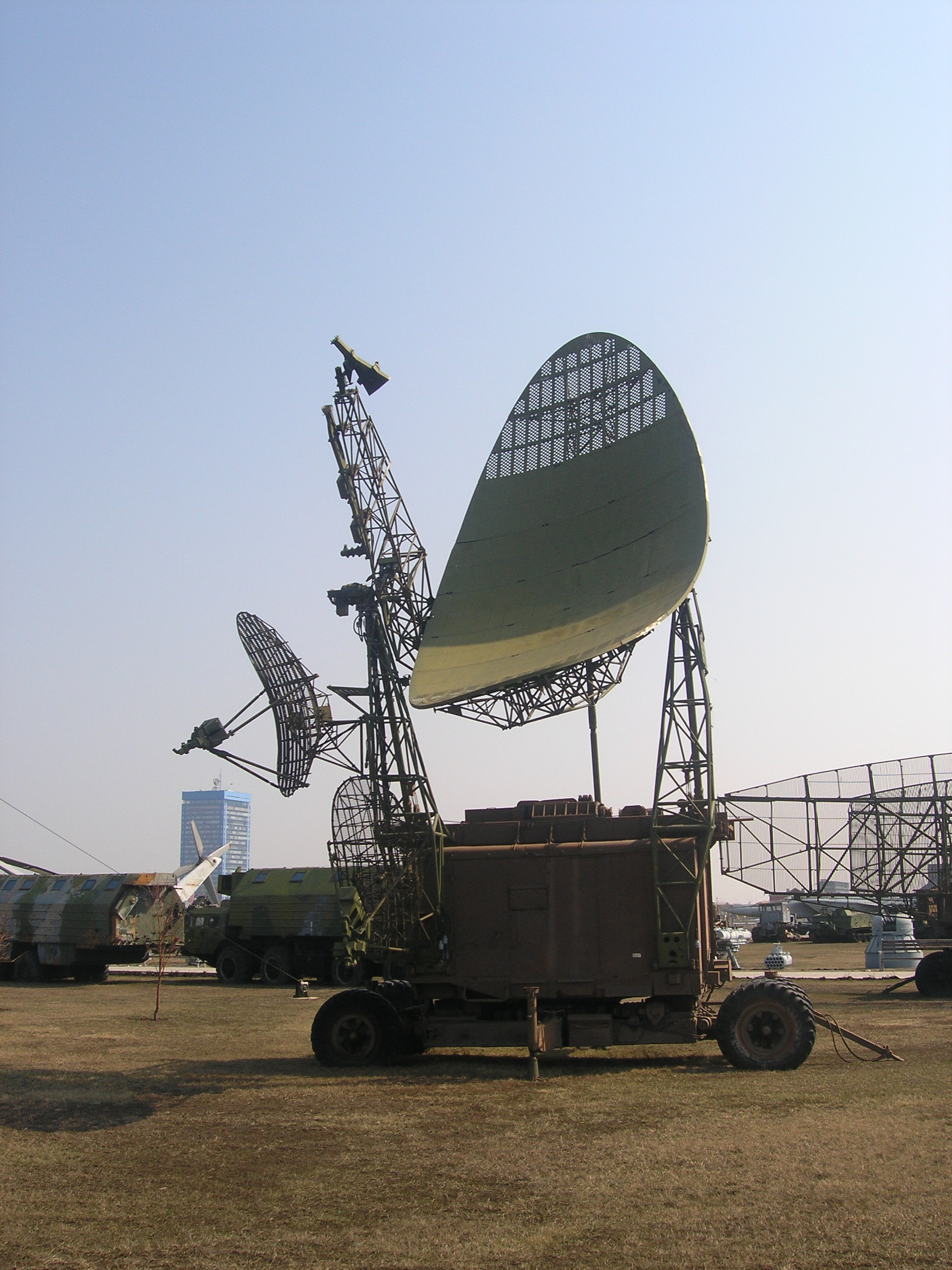 A PRV-17 (1RL141) mobile height finder. Technical museum Togliatti